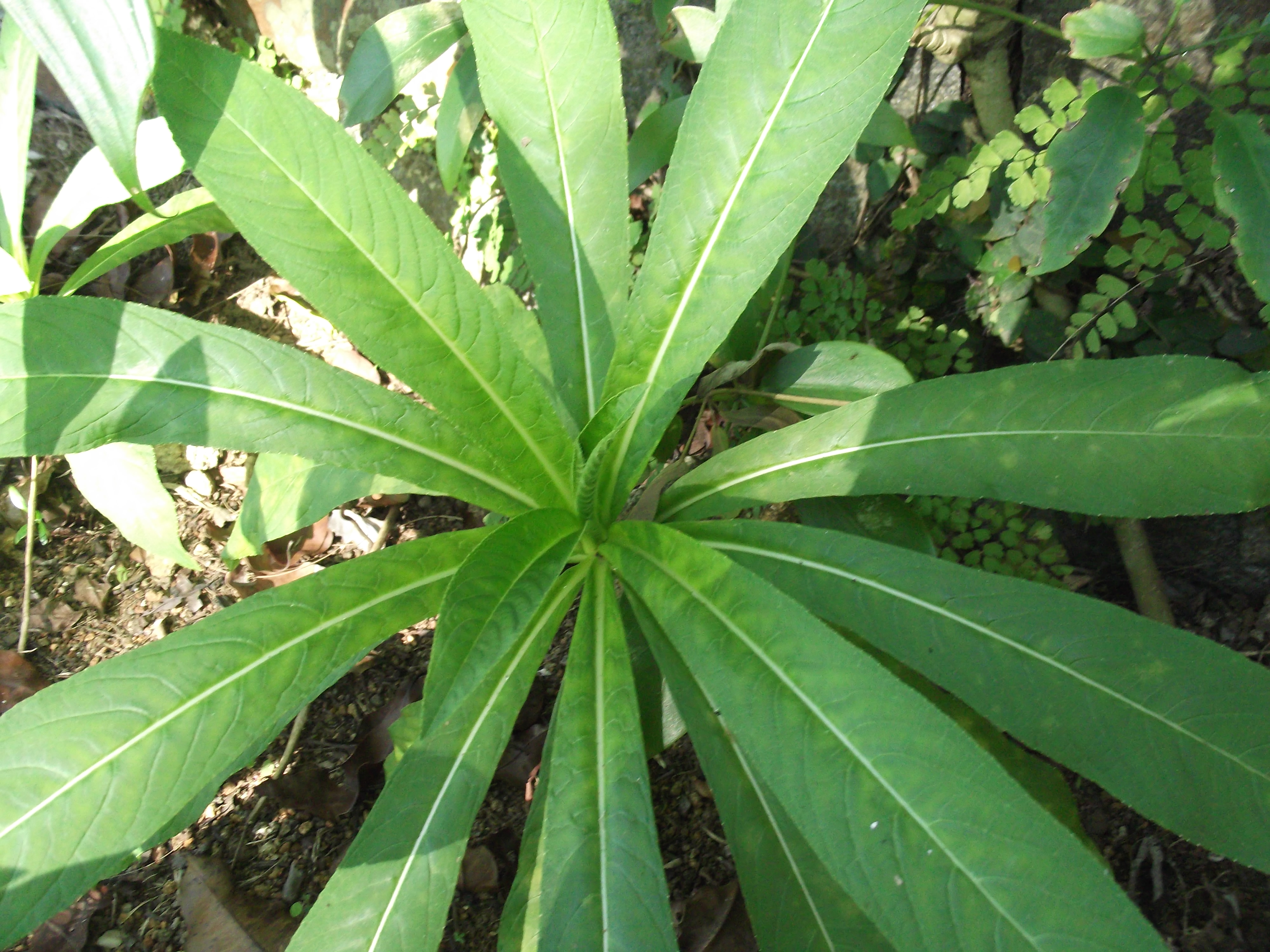 Campanulaceae-A erect herb,flowers white.